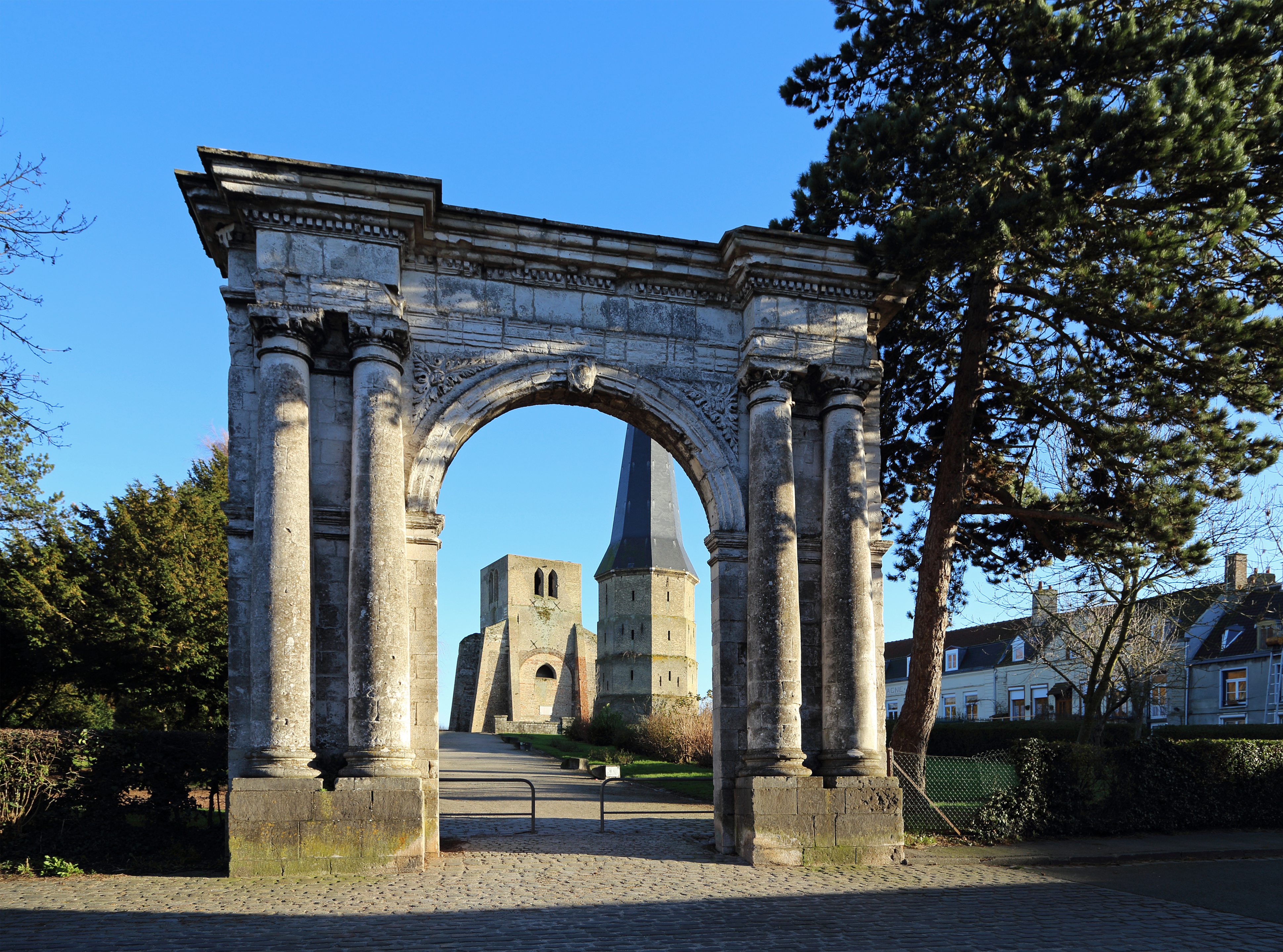 Bergues (département du Nord, France): the main gate ("Marble Gate") and the two towers of the former abbey